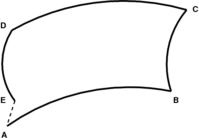 Figure to illustrate geometric interpretation of Lie bracket